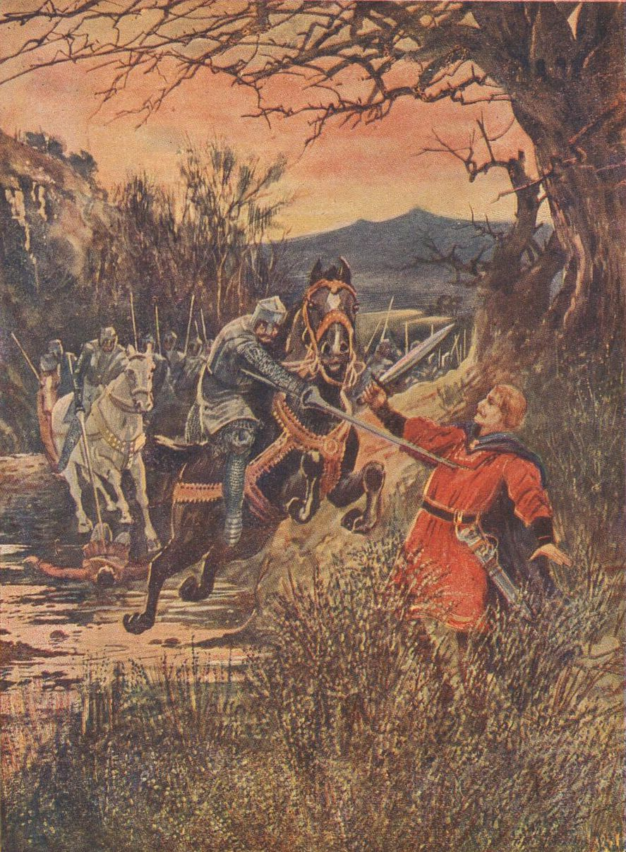 Illustrations and photographs of places and events in Welsh history from a childrens book called 'Flame Bearers of Welsh History'